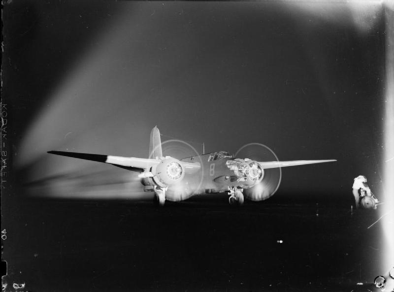 IWM caption : Illuminated by a Chance Light by the runway at Bradwell Bay, Essex, a Douglas Boston Mark III (Intruder) of No 418 Squadron RCAF prepares to take off on a night intruder mission over North-west Europe.